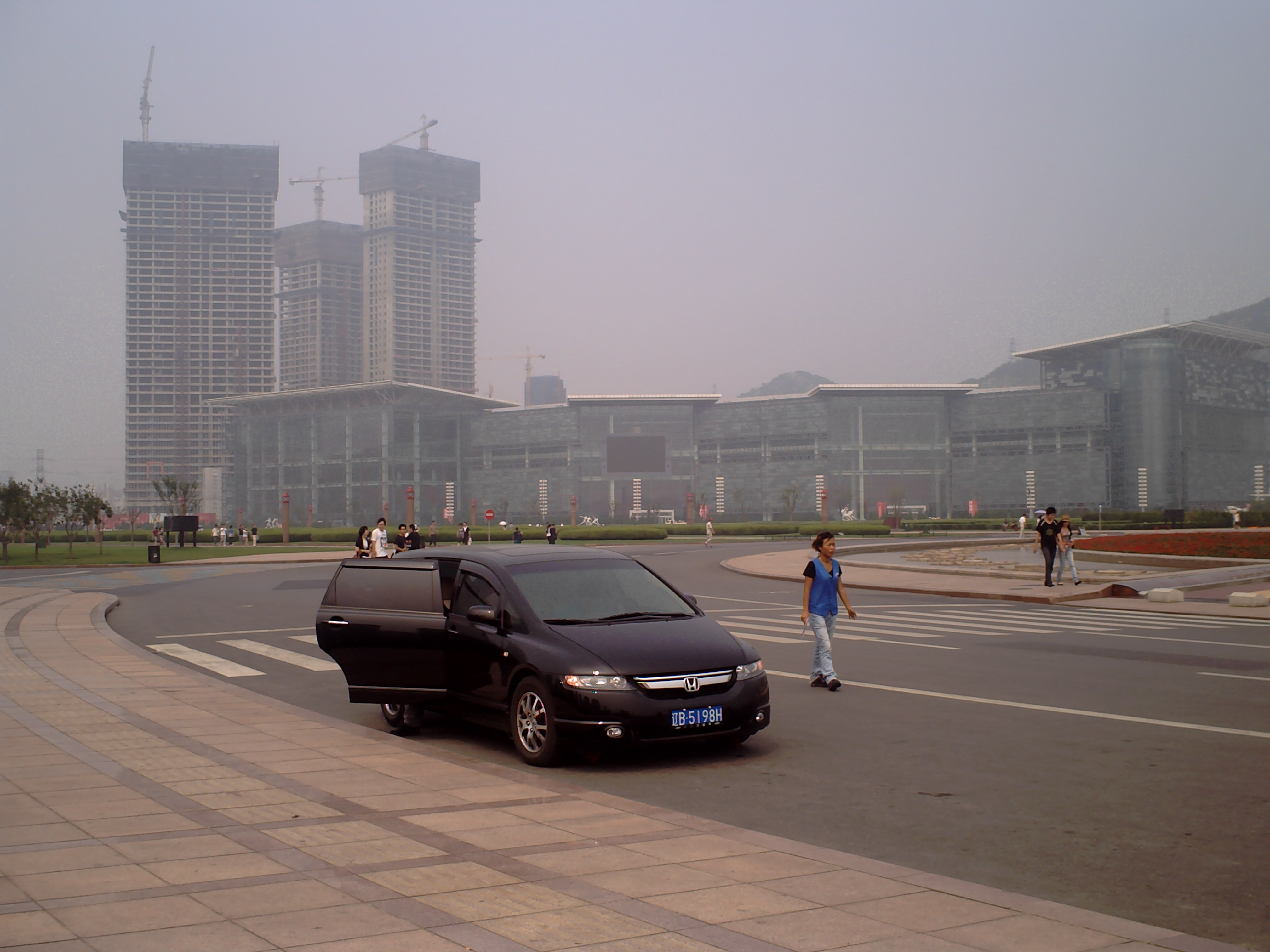 Xinghai Square (Dalian)